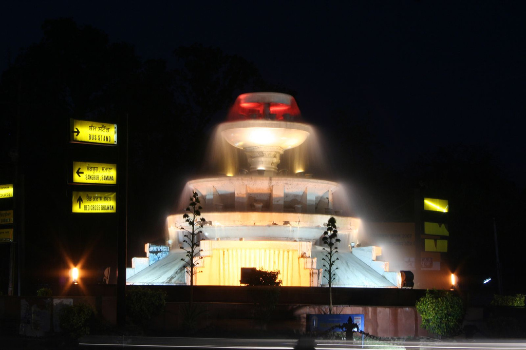 Rohit Markande